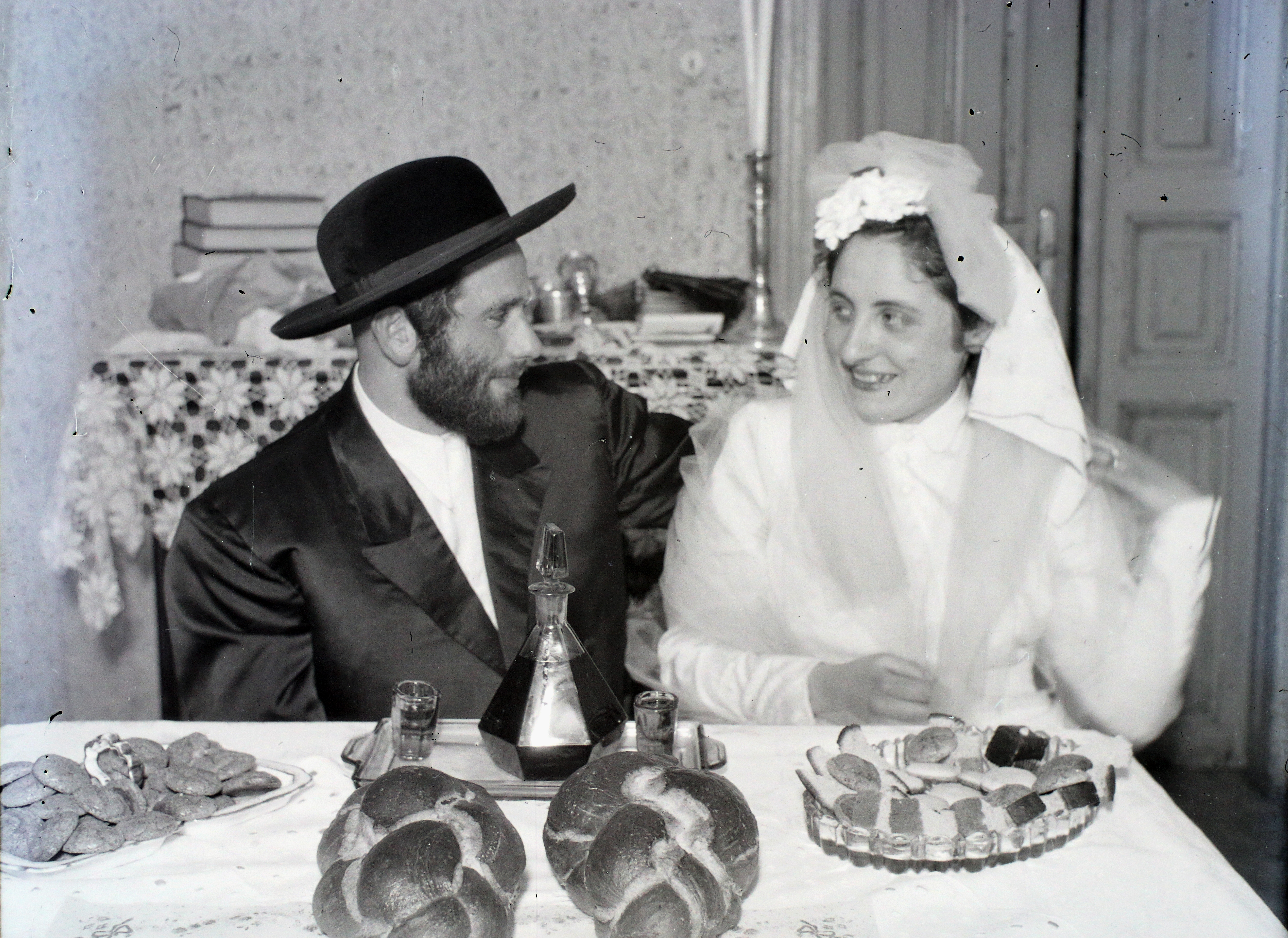 Location: Hungary Tags: Budapest, challah, wedding ceremony, bride, groom, judaism